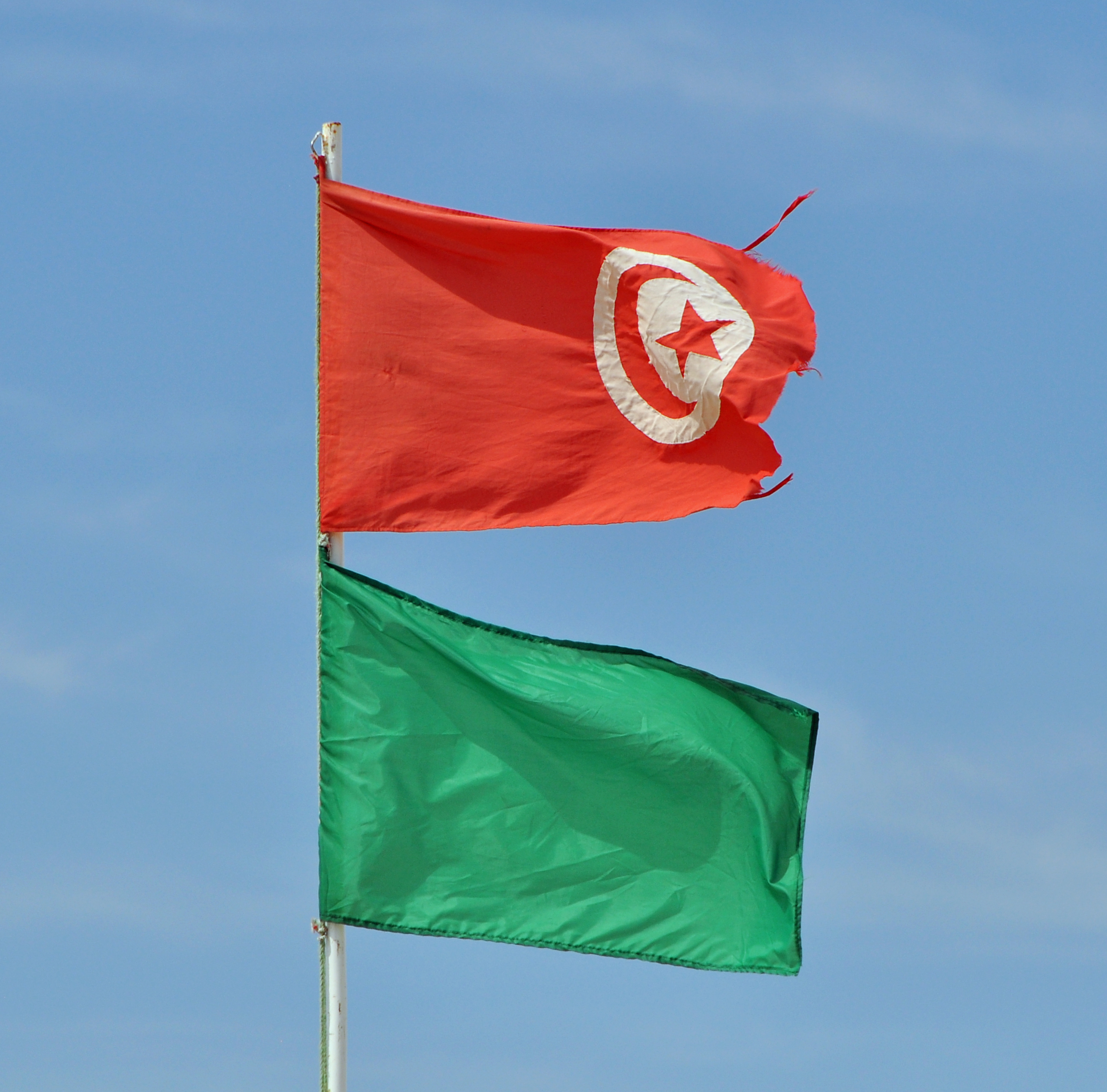 Tunisian flag